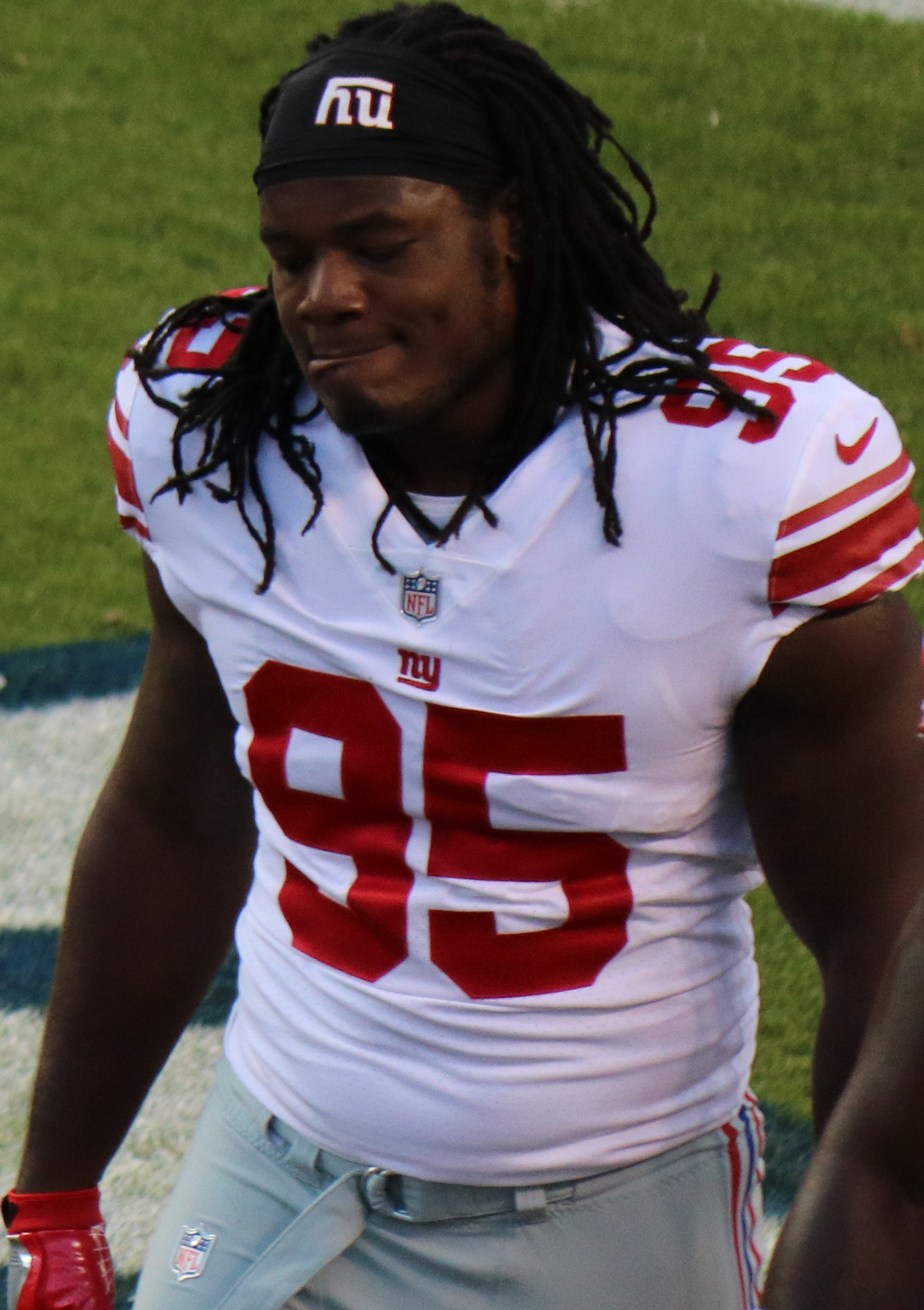 Cap Capi, a player on the National Football League.